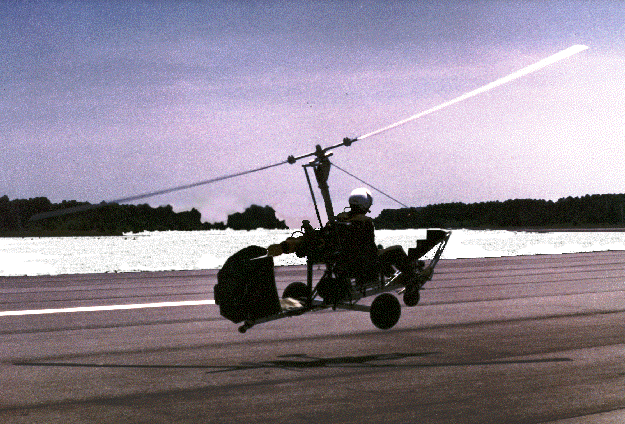 Robert Michelson flying experimental-rated gyrocopter at the Richard B. Russell Airport in Rome, Georgia.